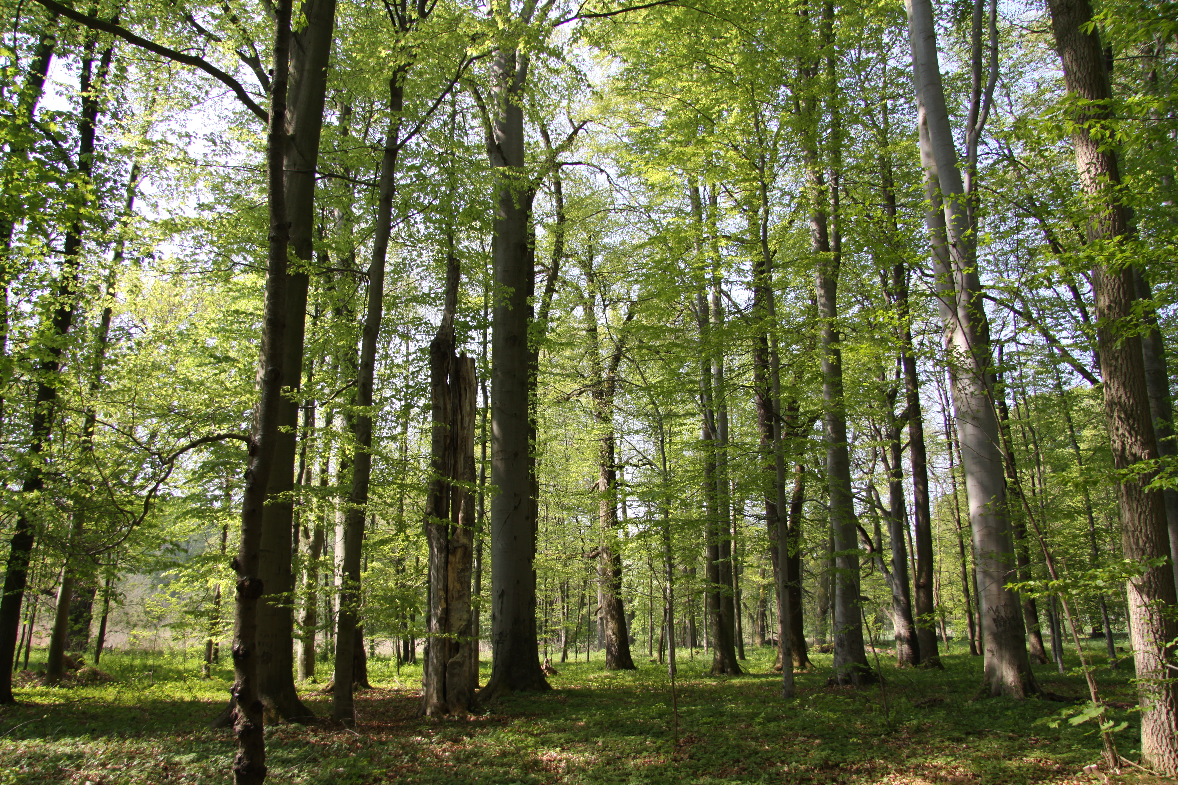 Natural reserve Libějovický park near Libějovice, Strakonice District, Czech Republic - Google Maps - Google Earth